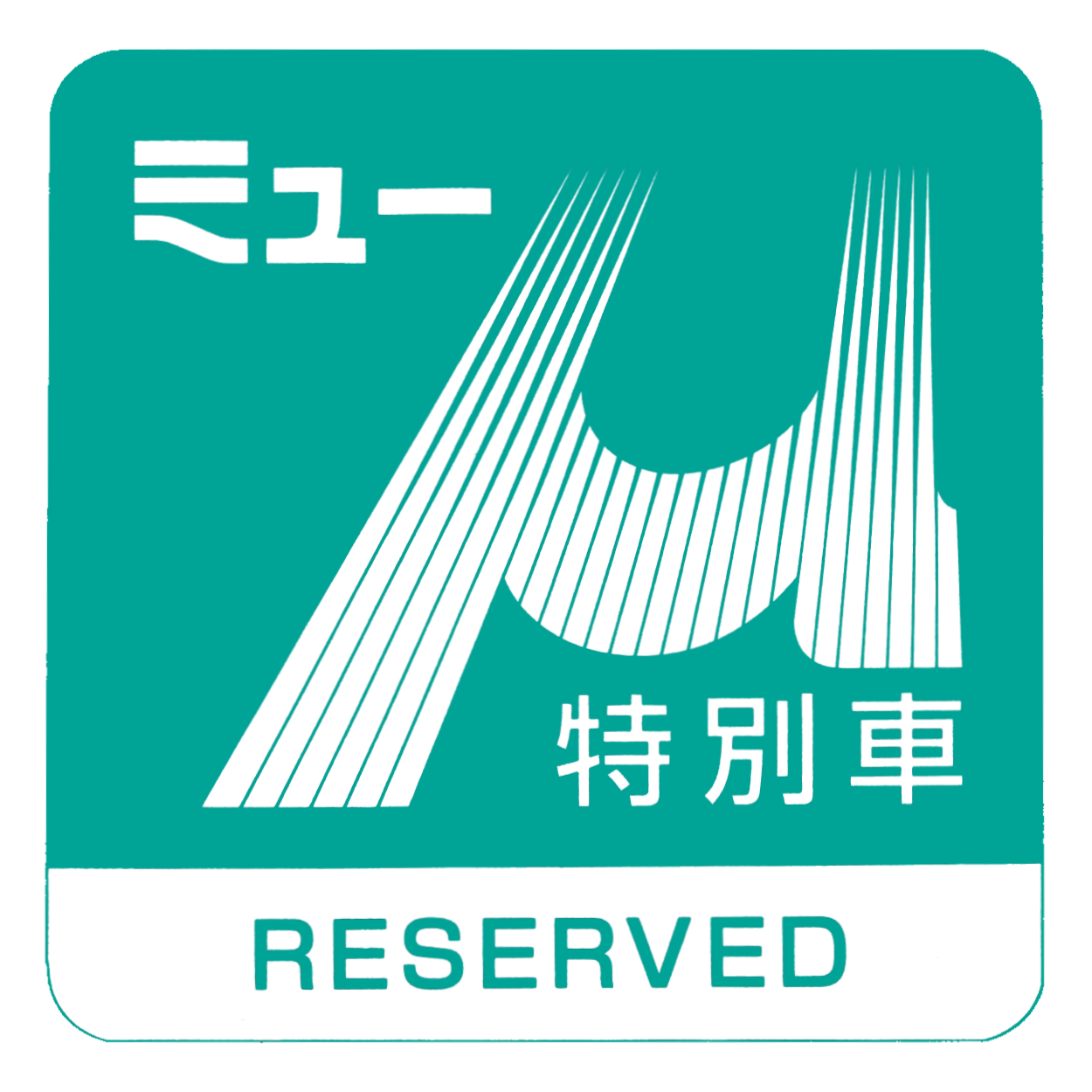 First Class Cars logomark.